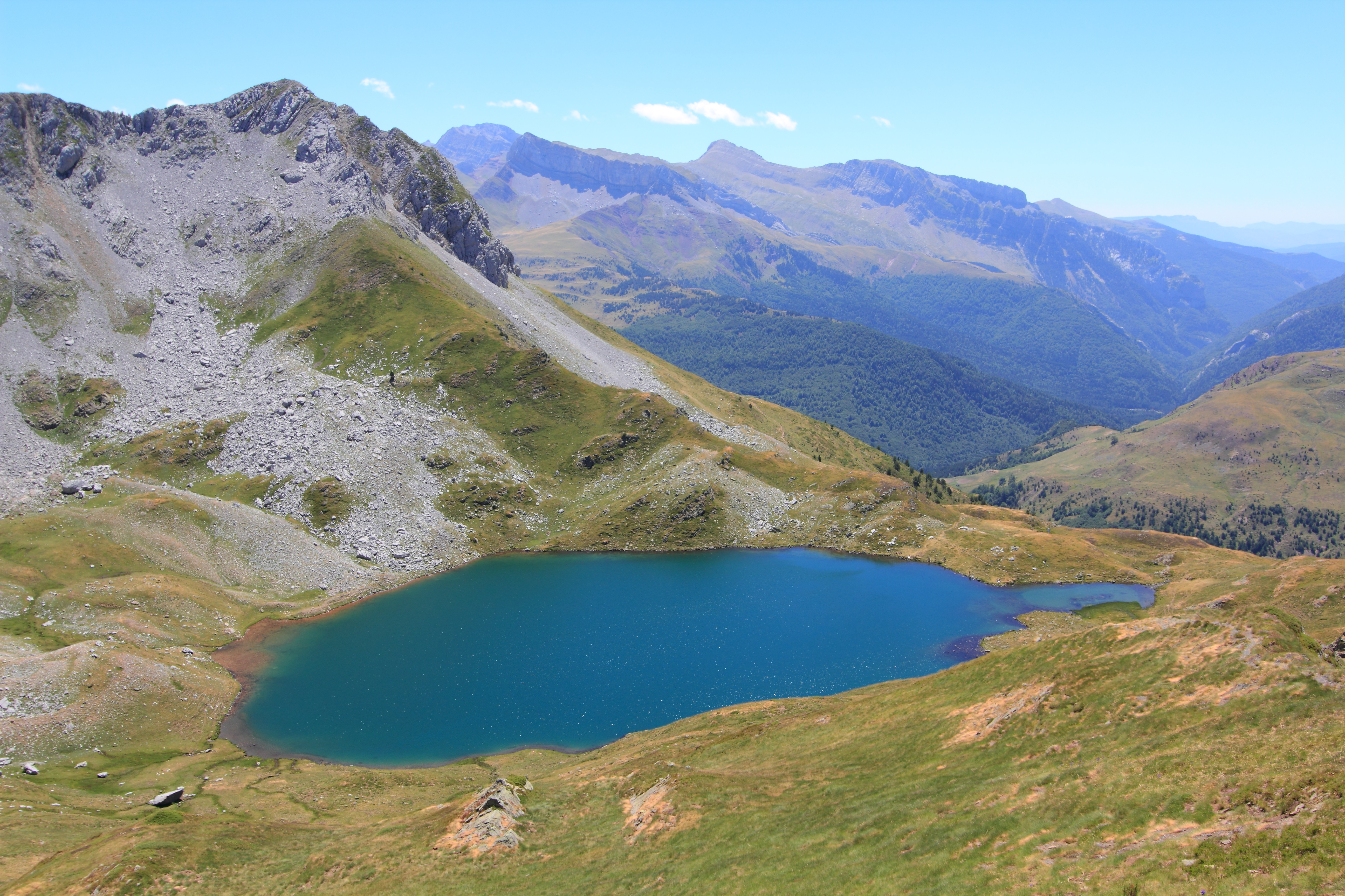 Chourique lake (Ibon de Acherito) in the Spanish Pyrenees.